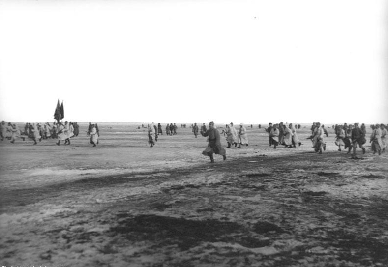 Suppression of the Kronstadt mutiny. Soldiers of the Red Army attack the island fortress of Kronstadt on the ice of the Gulf of Finland.